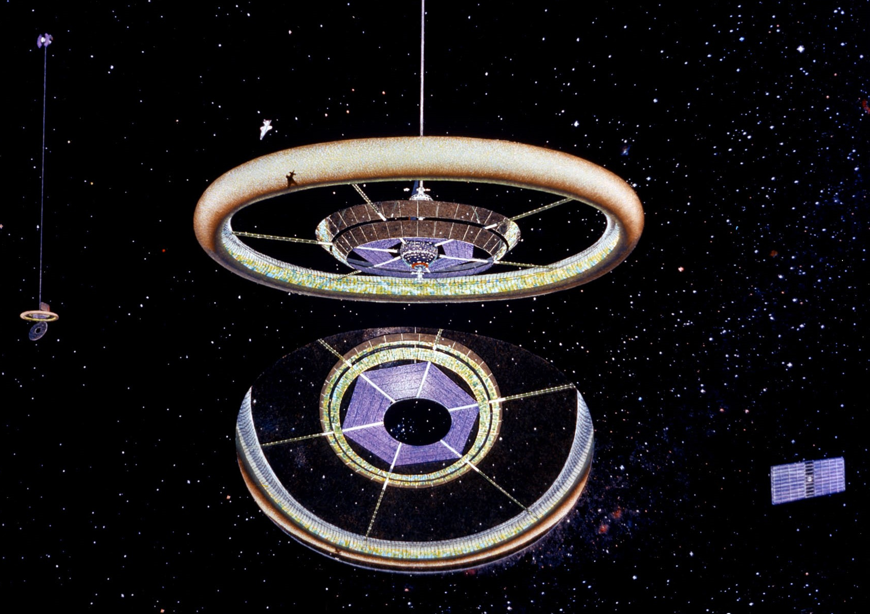 Artist's impression of an external view of the Stanford torus space station design.